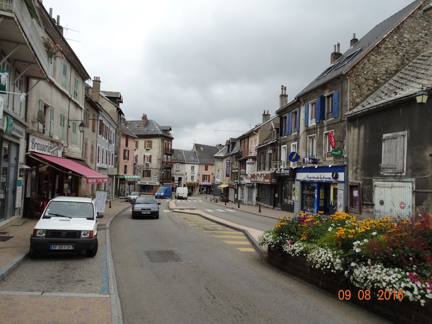 Vue sur la rue